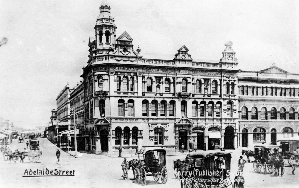 Queensland Deposit Bank and Building Society, Brisbane, ca. 1903. Erected in 1889 on the corner of Albert and Adelaide Streets. The cornerstone was laid by B. B. Moreton, (Chairman of the Board of Directors) on 23 April 1889. Architects were Messrs. Hunter and Corrie. (Description supplied with photograph.).